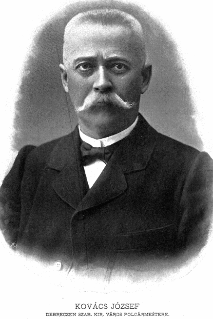 Portrait of Kovács József